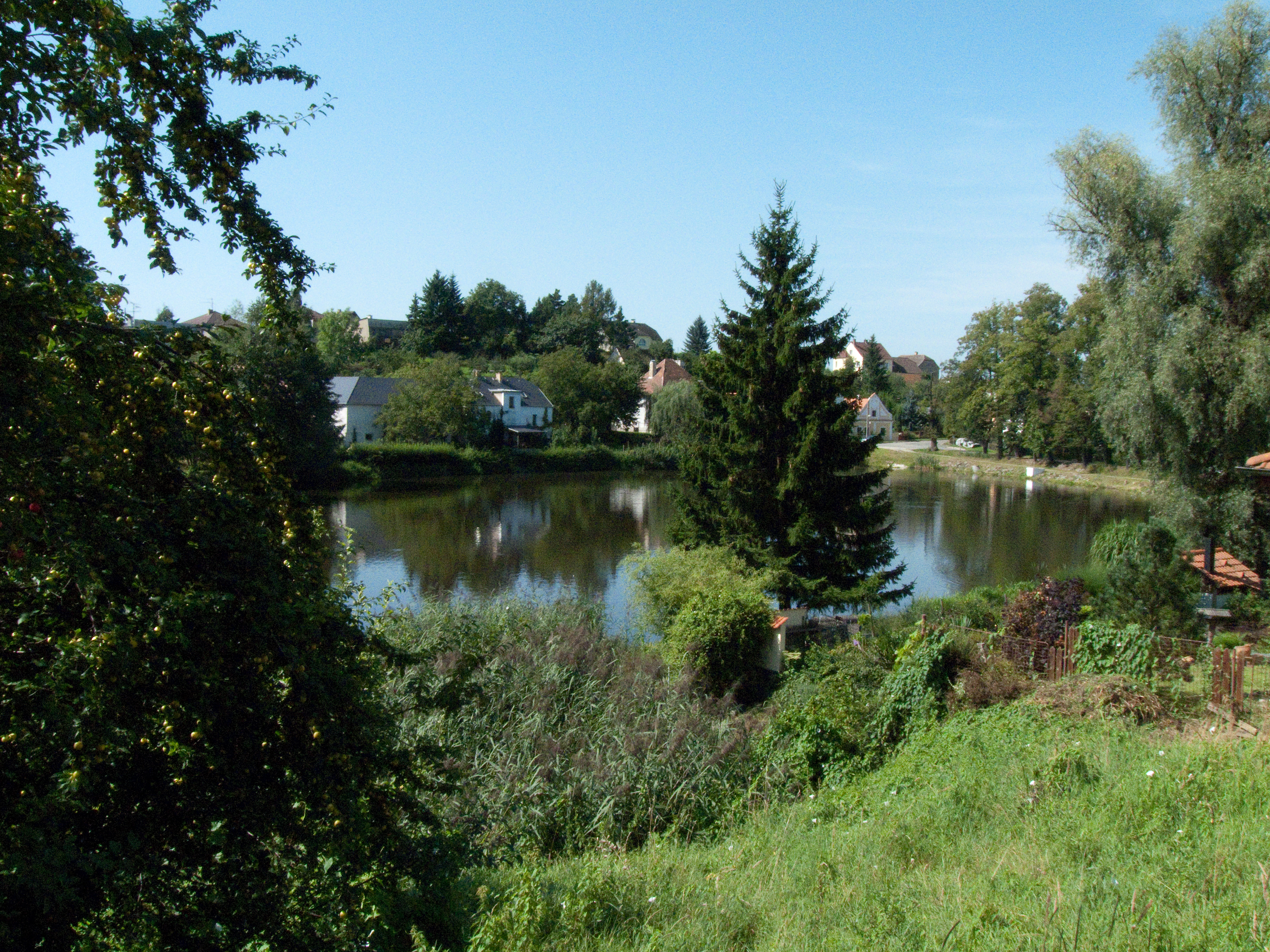 Královský rybník (King's Pond) in Rudolfov, České Budějovice district, Czech Republic